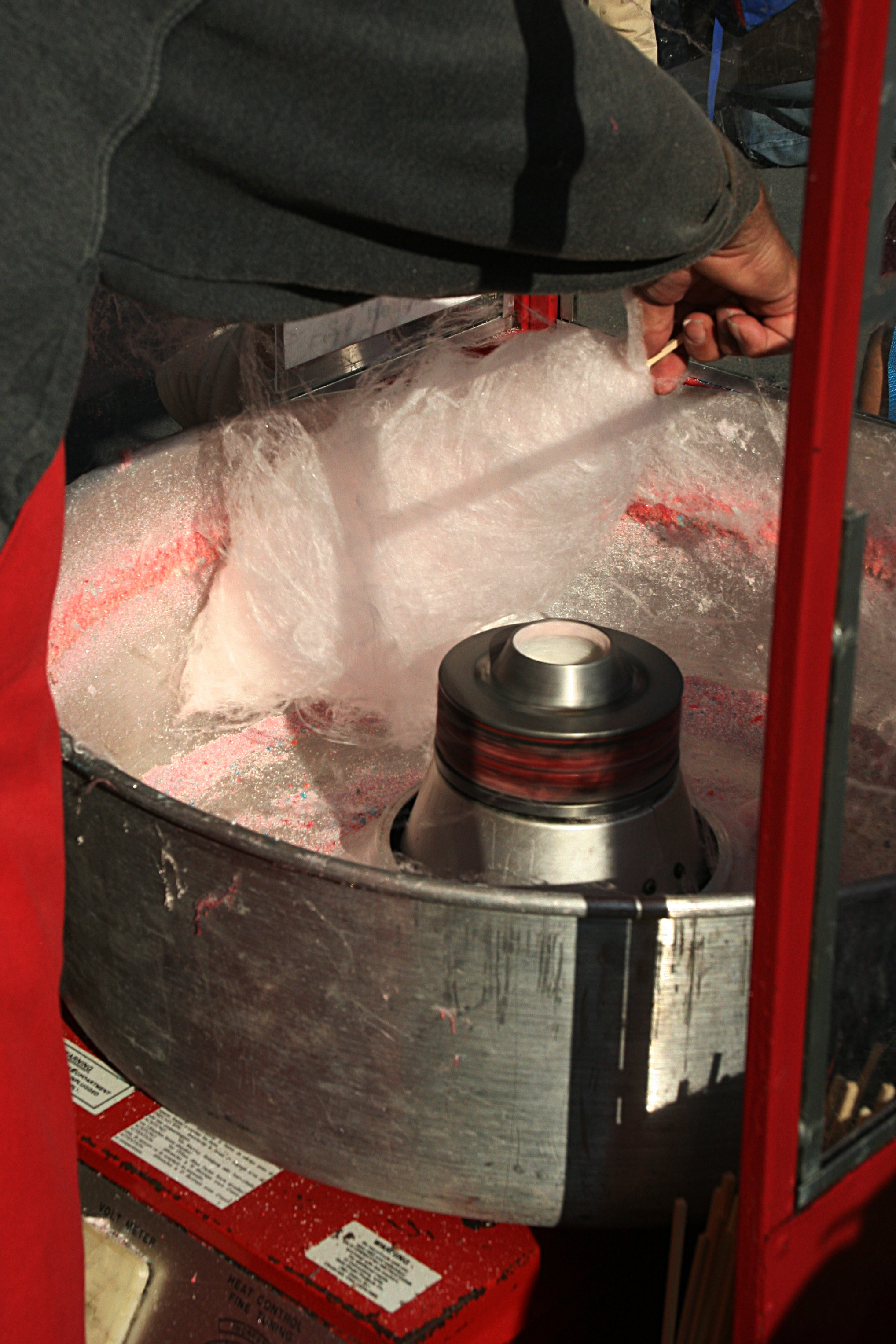 Spinning cotton candy